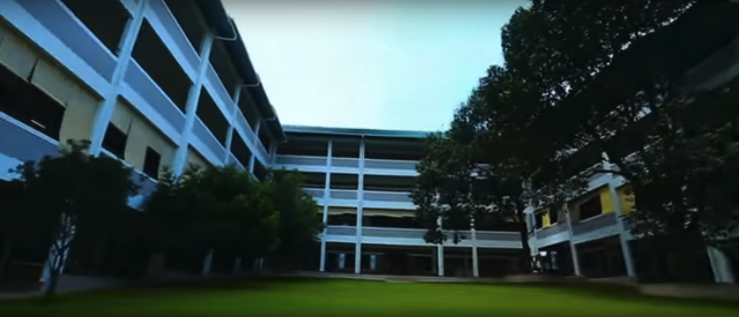 CBSE Block Of Global Public School